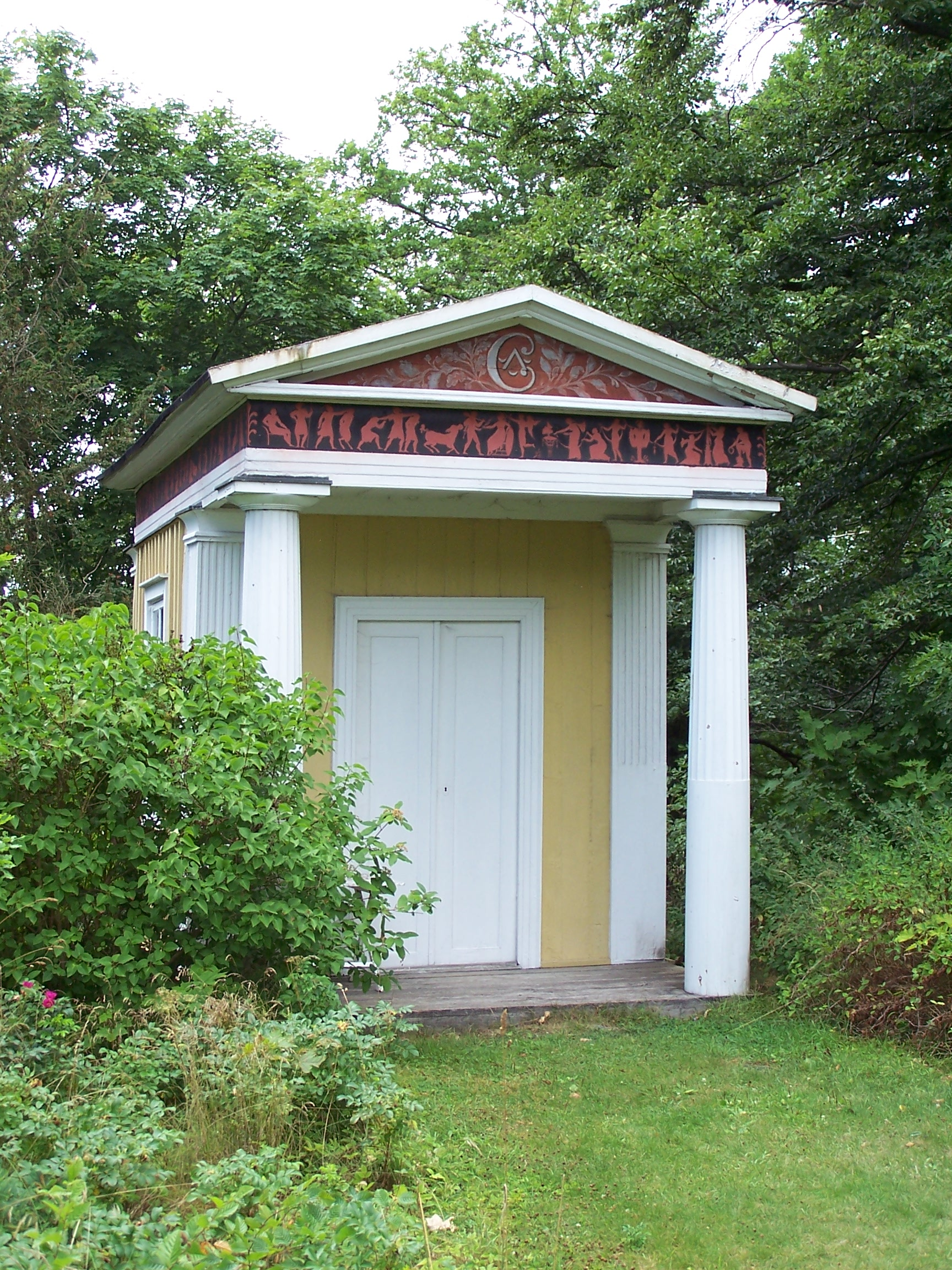 Skärva - Garden pavilion